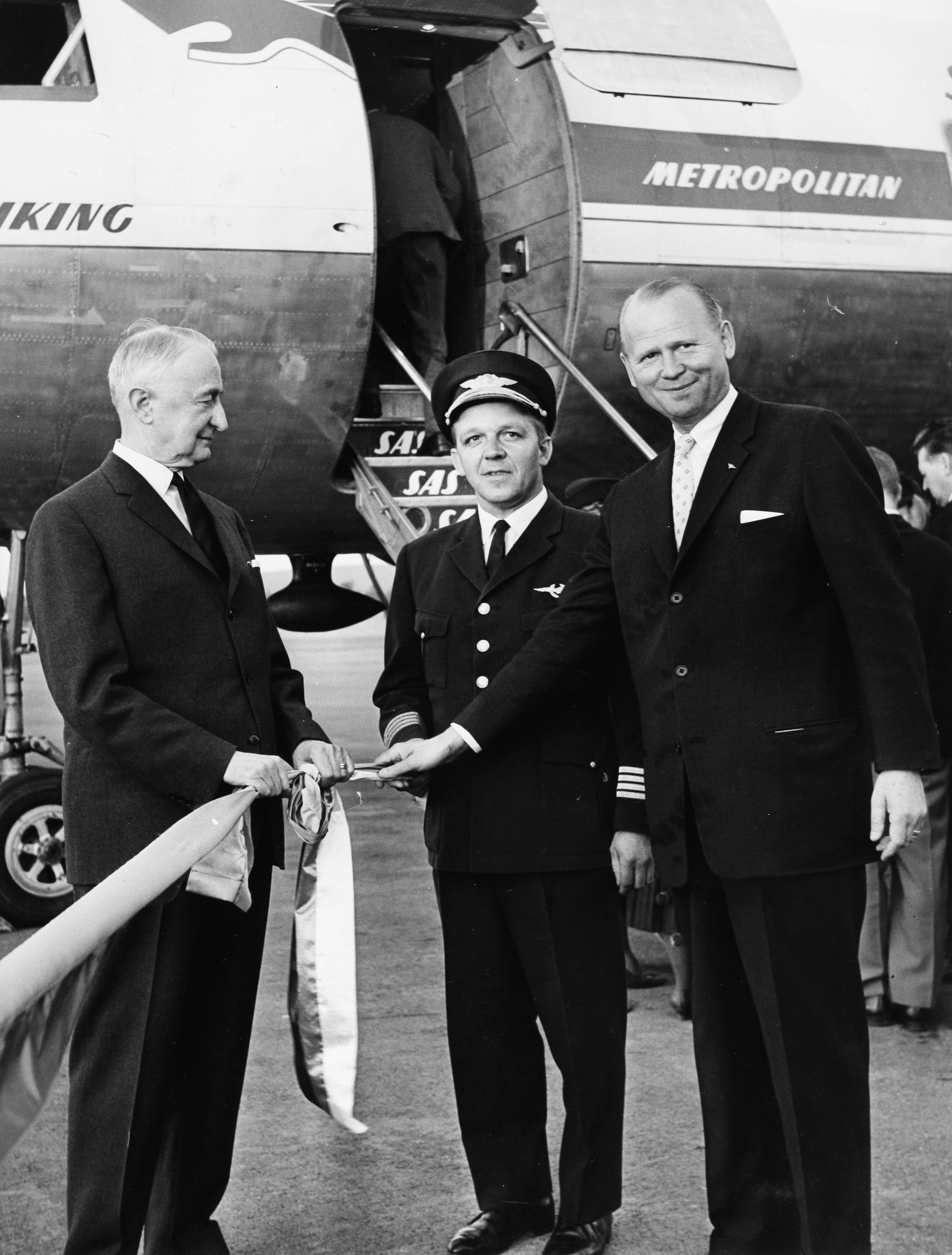 Bardufoss Airport BDU, Inauguration of flight between Kiruna - Bardufoss by SAS Ingemund Viking CV-440, from left Governor Manfred Näslund, Captain Nils Scholz and SAS regional officer Sven-Erik Svanberg, Juni 1963